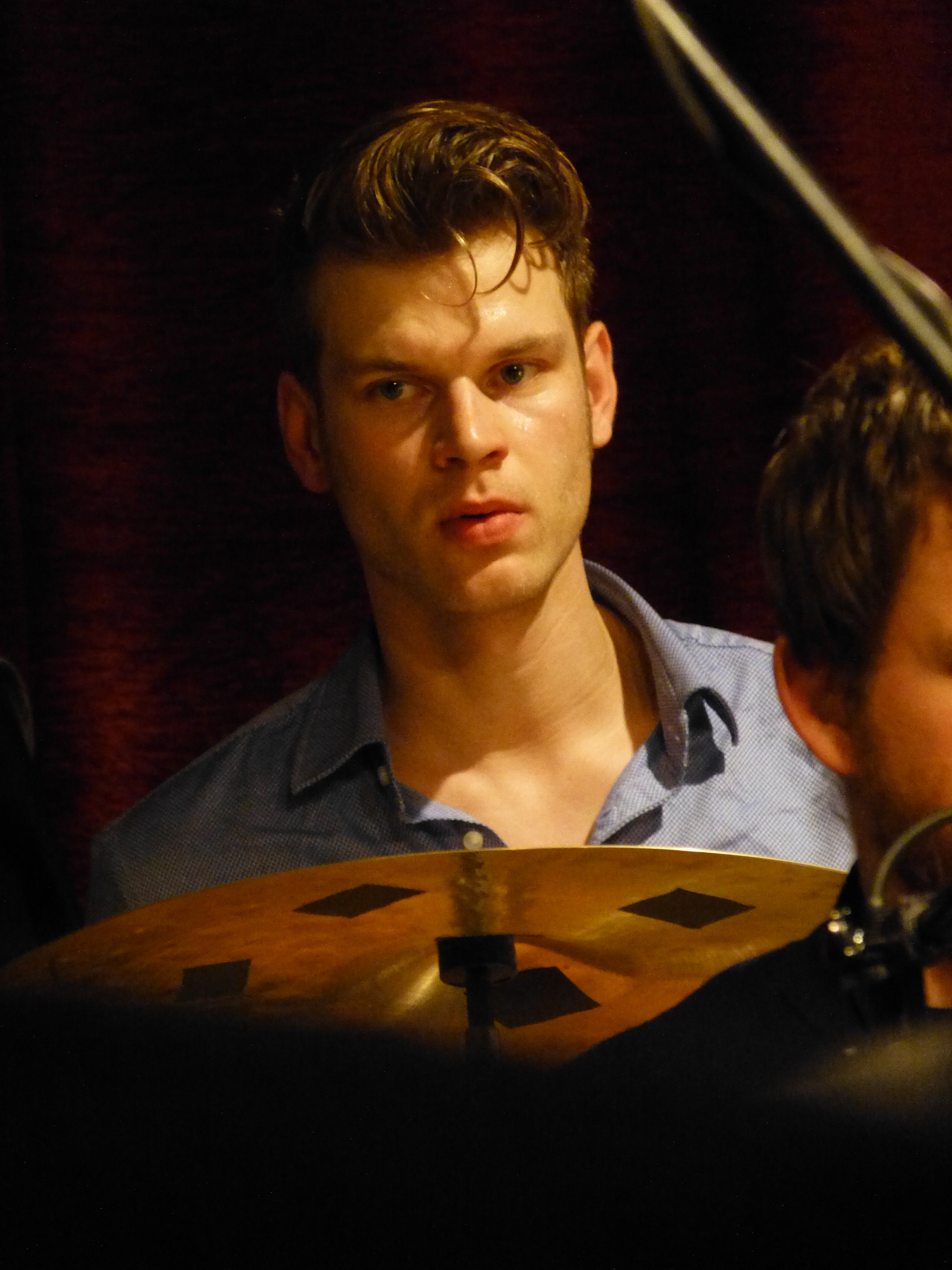 Christian Lillinger at Loft, Cologne, Germany, December 16th, 2012